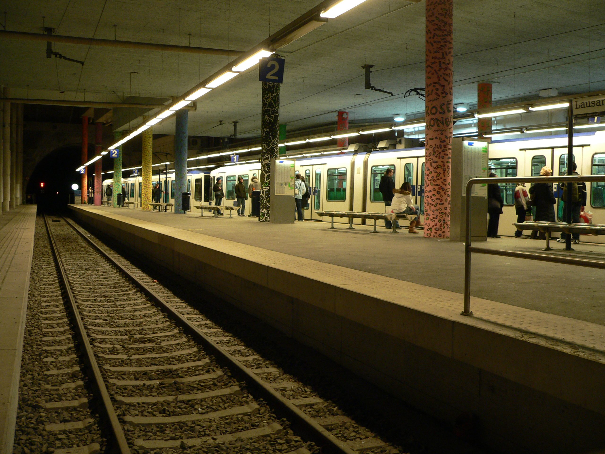 Flon metro station in Lausanne (m1 line, aka TSOL